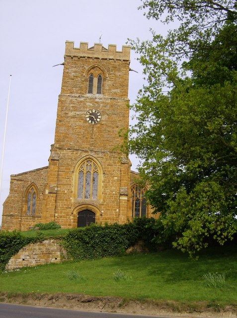 Great Brington church from the west Oops, it does not lean as much as this. I'll correct that in due course.